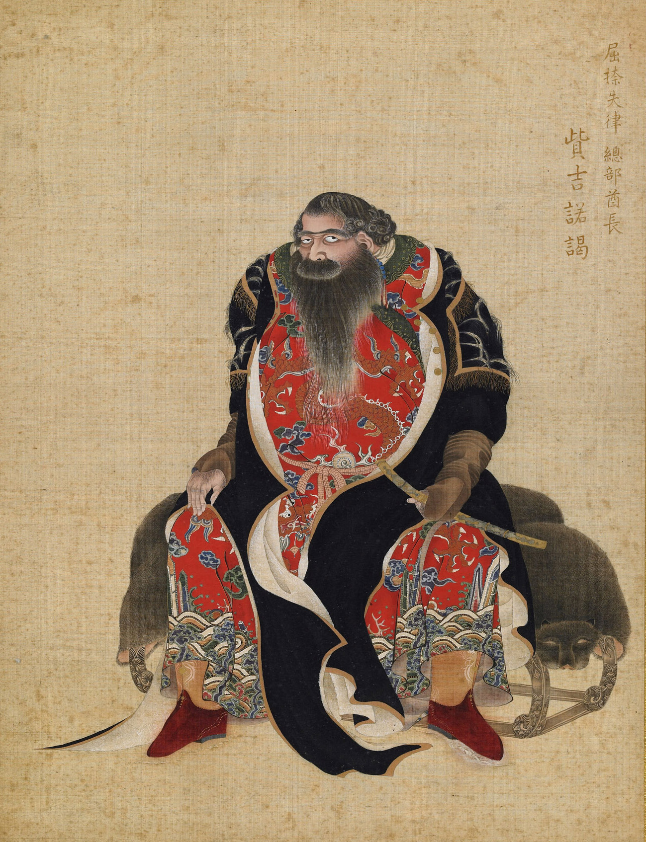 Ishuretsuzo: Tsukinoe, Ainu Chieftain of Kunashiri, by Kakizaki Hakyo